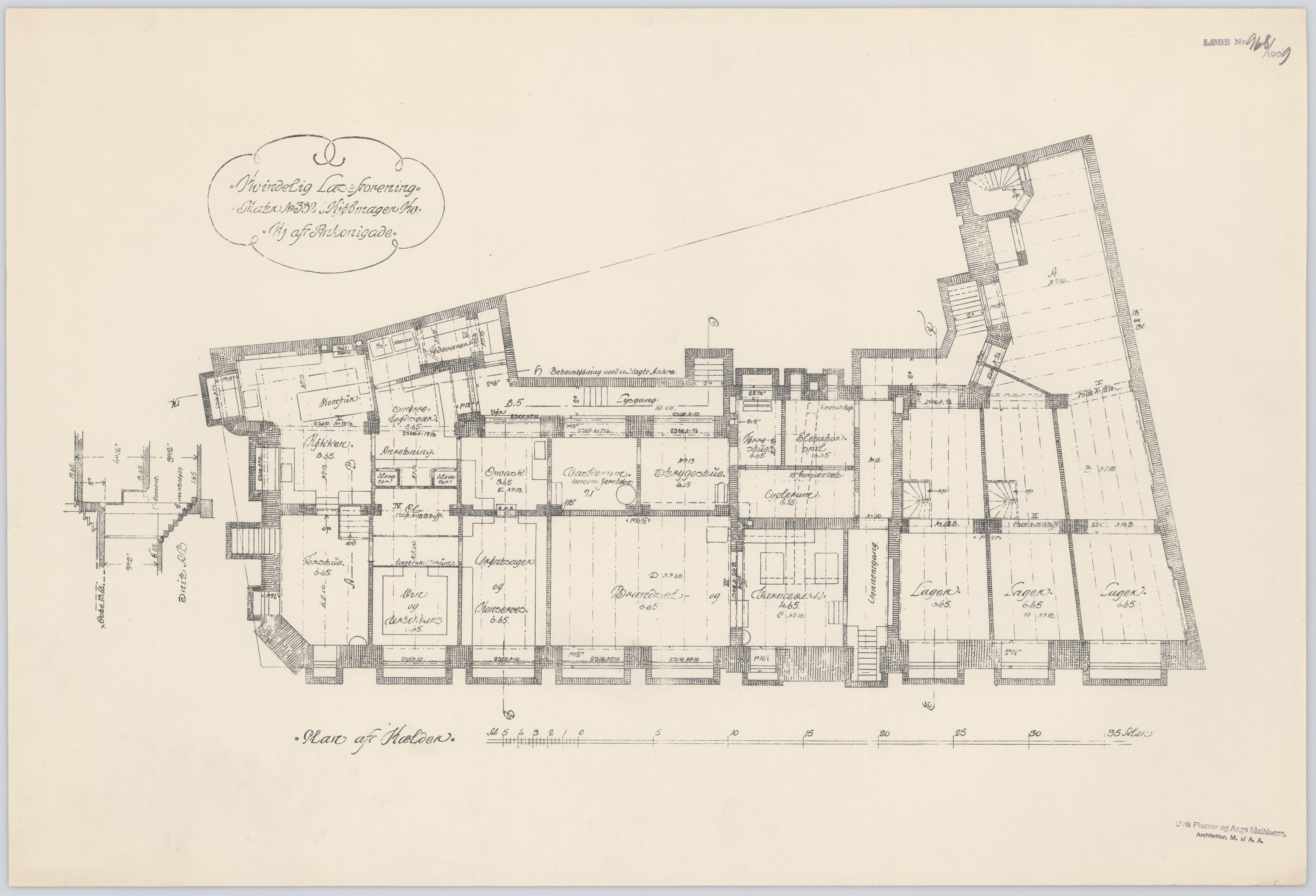 Plan drawing of the Kvindelig Læseforening building on Gammel Mønt in Copenhagen, Denmark